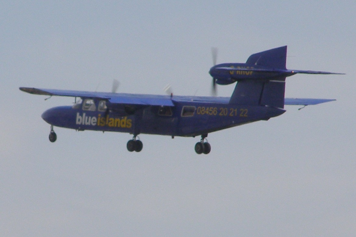 Britten-Normal Trislander of Blues Islands on departure from Shoreham Airport, England